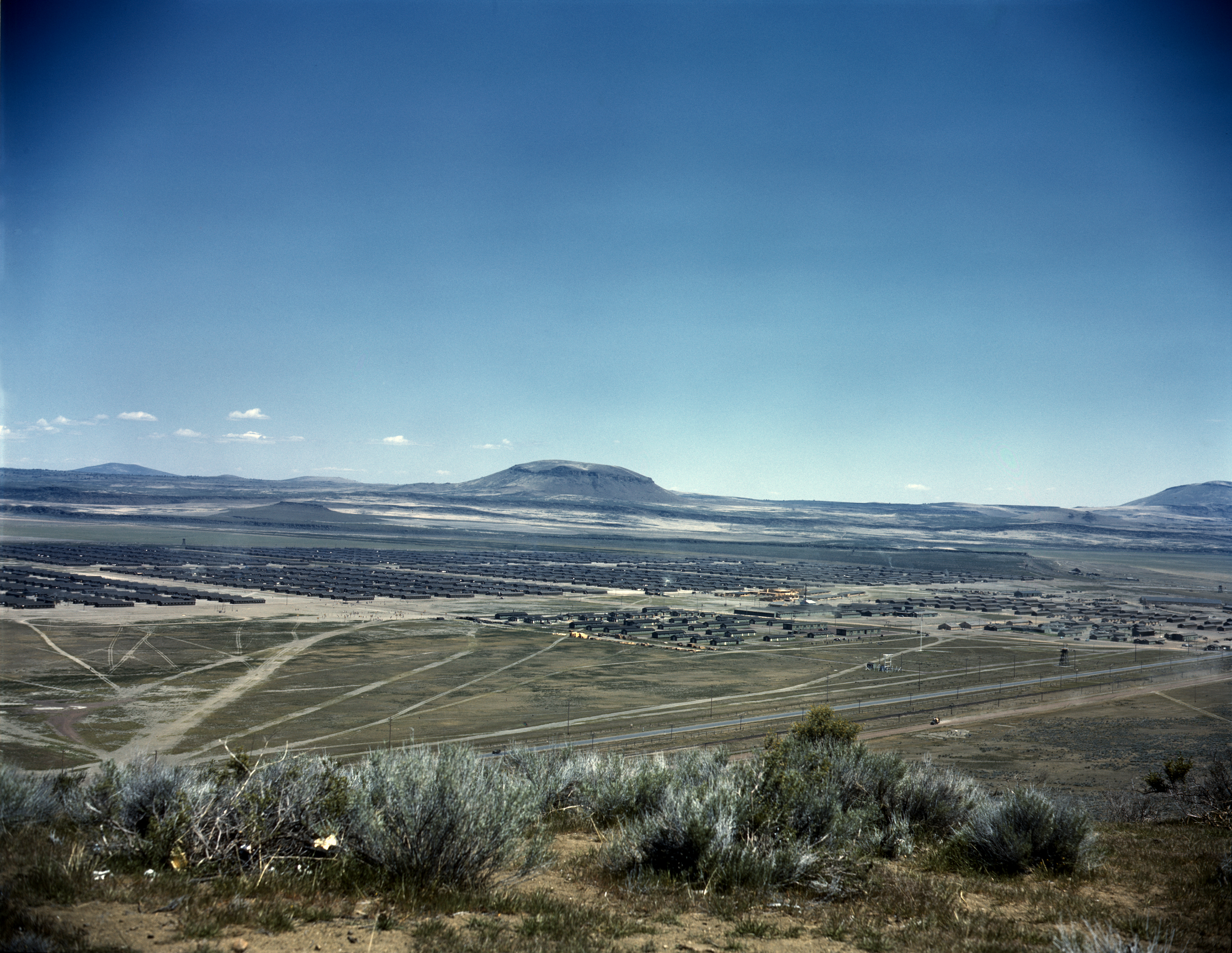 A view of the Tule Lake War Relocation Center, circa 1942 or 1943. Horse Mountain is in the background — in Modoc County, northeastern California.